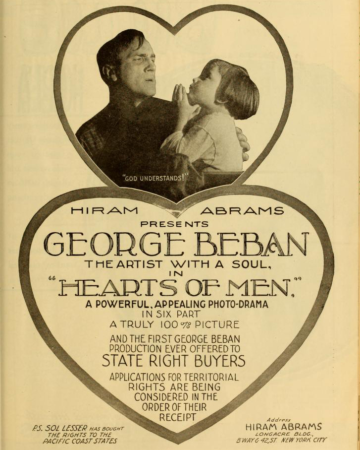 Advertisement in Moving Picture World, March 1919 for the film Hearts of Men (1919) with George Beban and his son George Beban Jr.